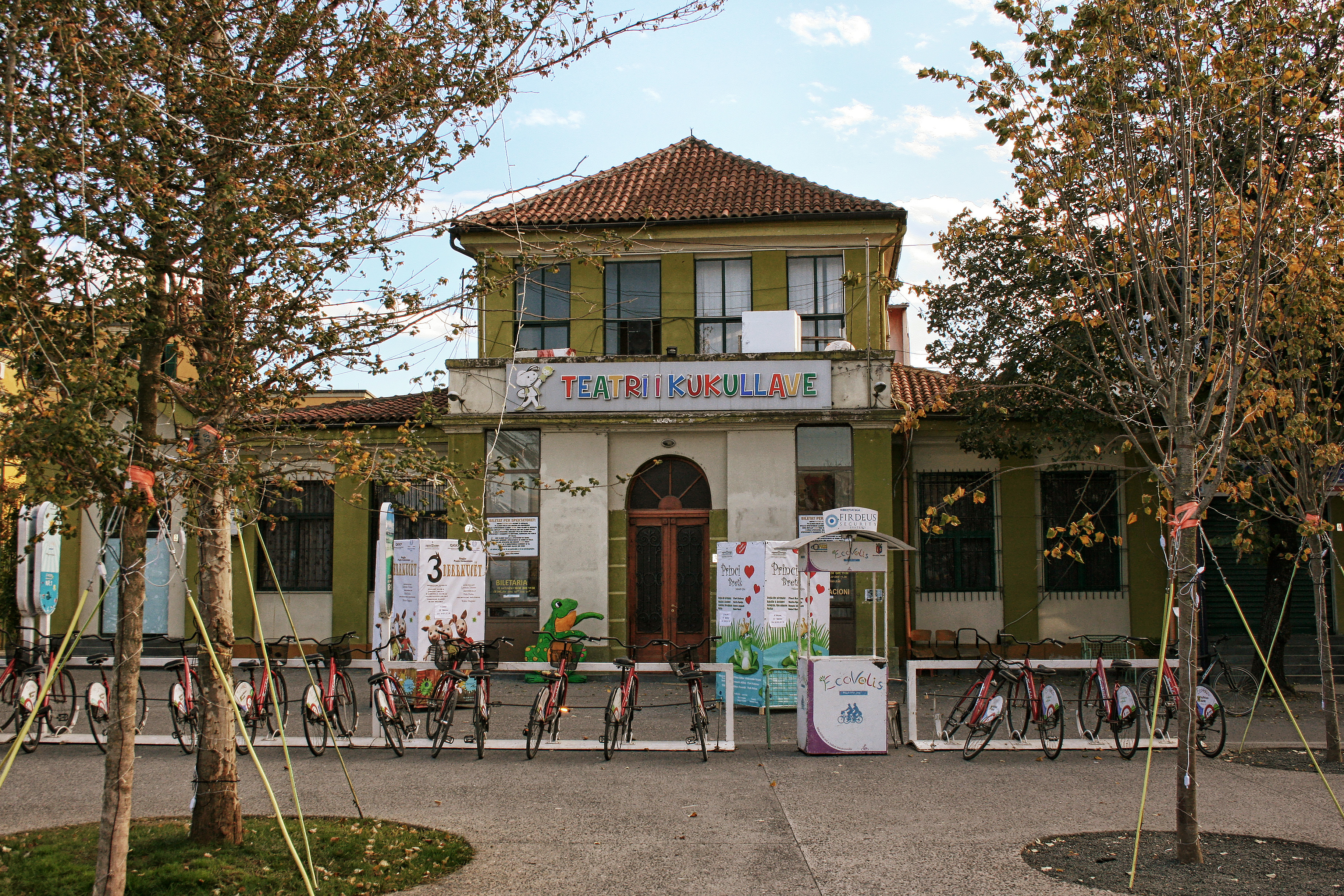 View of the Puppet Theater